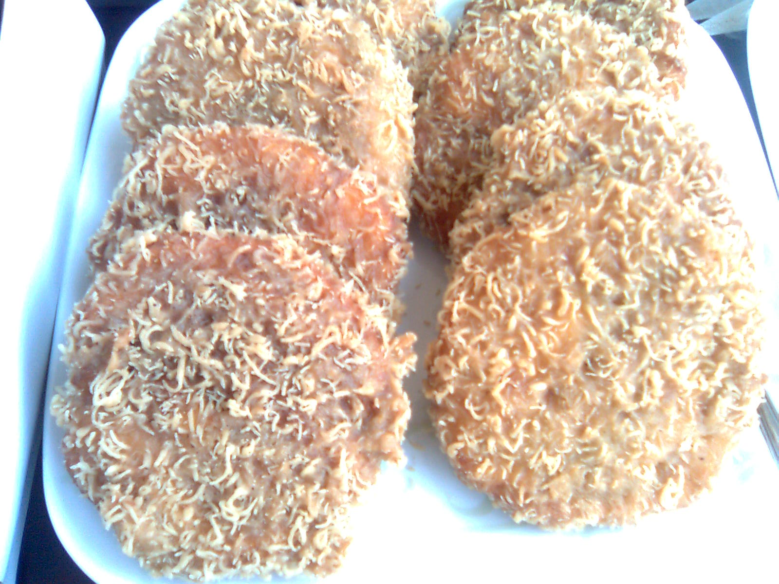 Pisang goreng or fried banana, Indonesian snacks